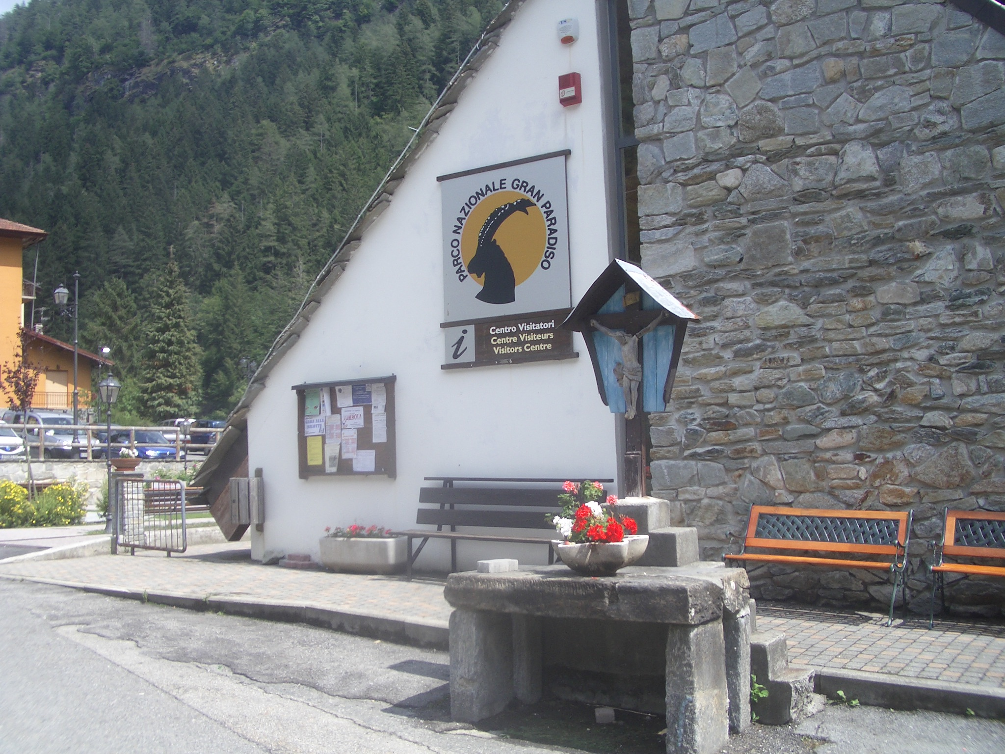 Ronco Canavese (Turin), a corner of the village (with the logo of Gran Paradiso National Park)